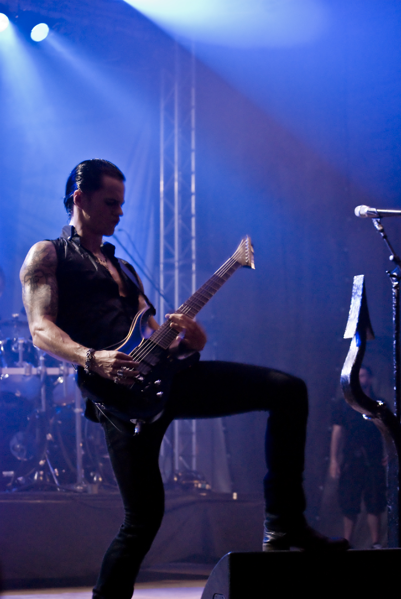 Satyr of Satyricon